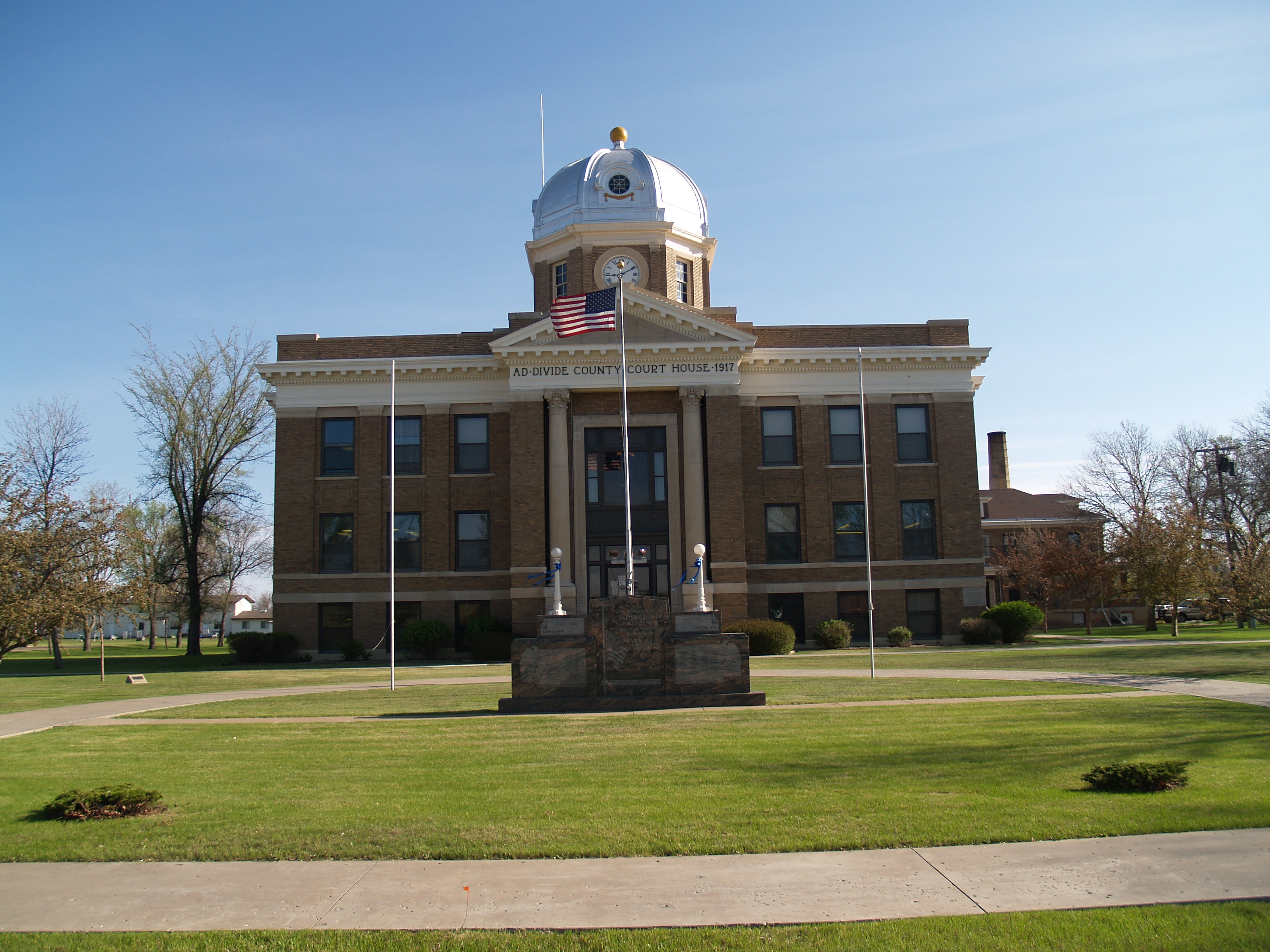 The Divide County Courthouse in Crosby, North Dakota, which is listed on the National Register of Historic Places.